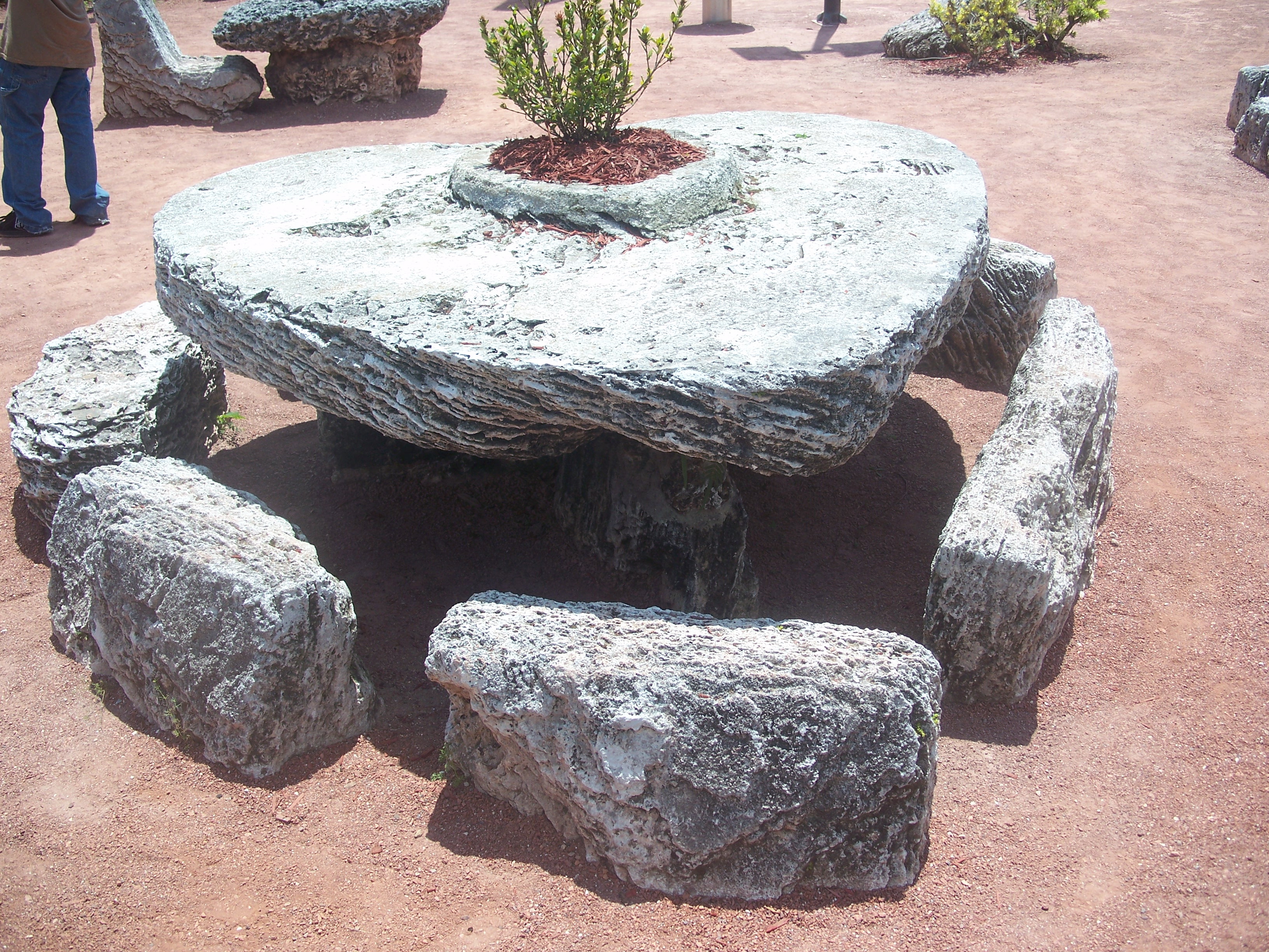 Homestead, Florida: Coral Castle: Feast of Love table